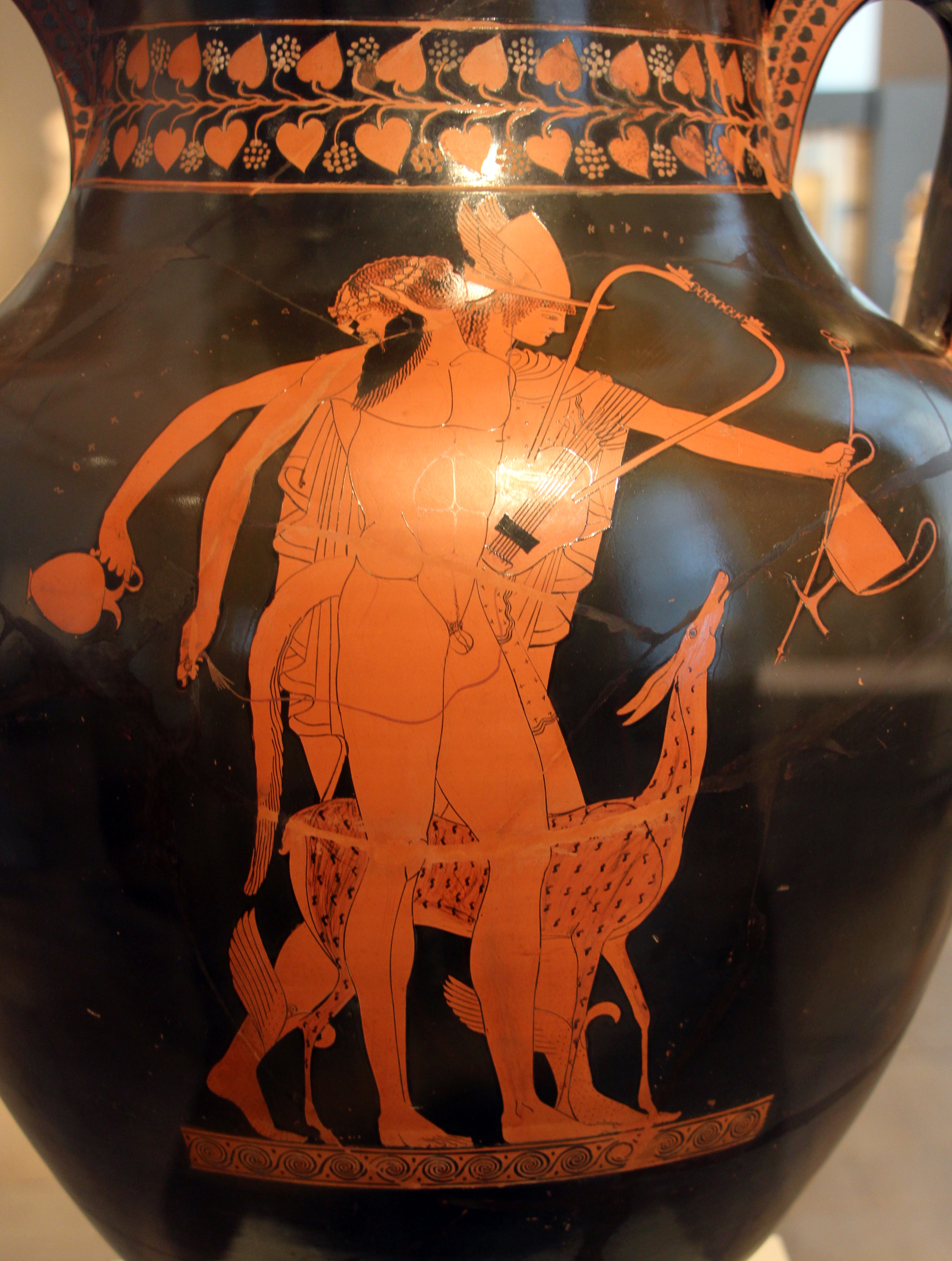 Ancient Greek pottery in the Antikensammlung Berlin